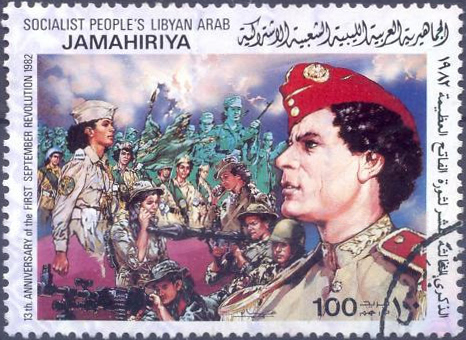 13th anniversary of the Revolution of September 1969